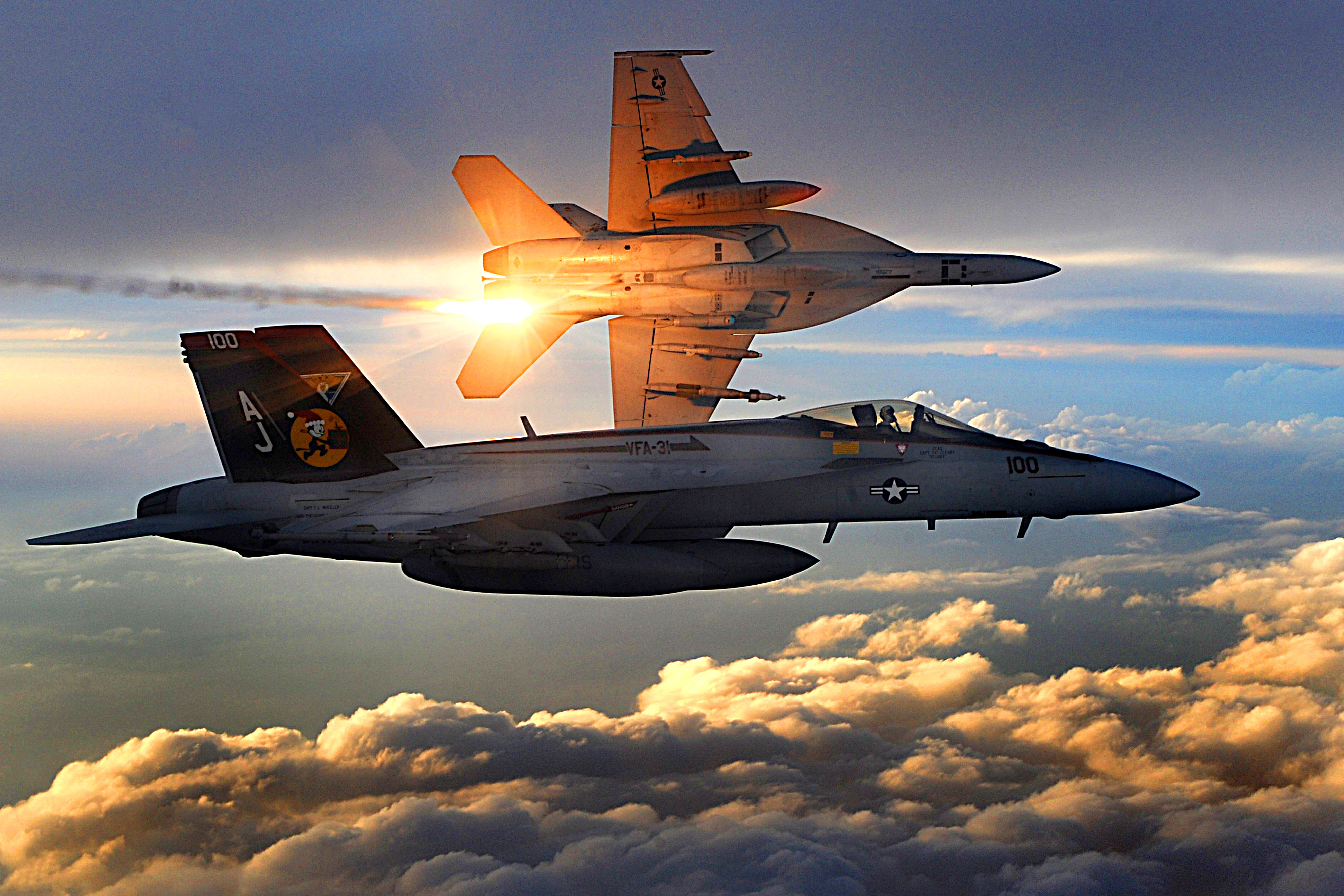 Two U.S. Navy F/A-18 Super Hornets of Strike Fighter Squadron 31 fly a combat patrol over Afghanistan, Dec. 15, 2008.